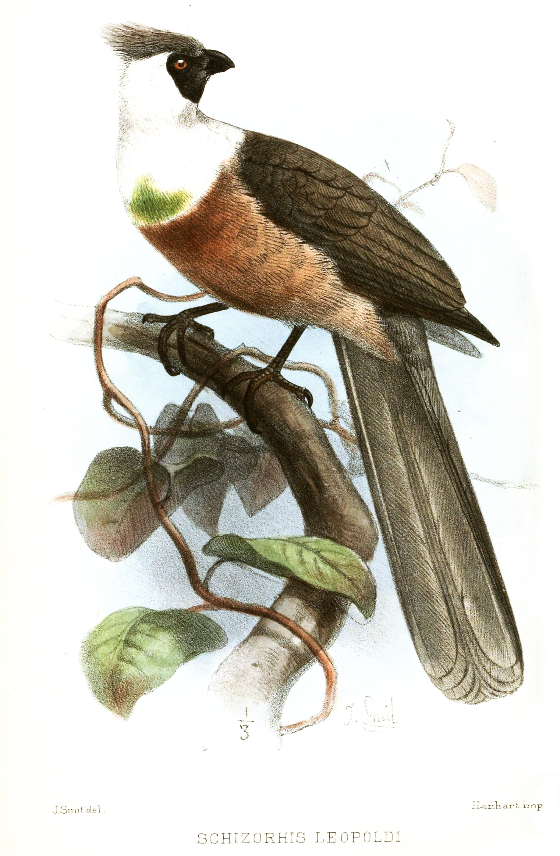 « Schizorhis leopoldi » = Corythaixoides personatus leopoldi (Subspecies of Bare-faced Go-away-bird)